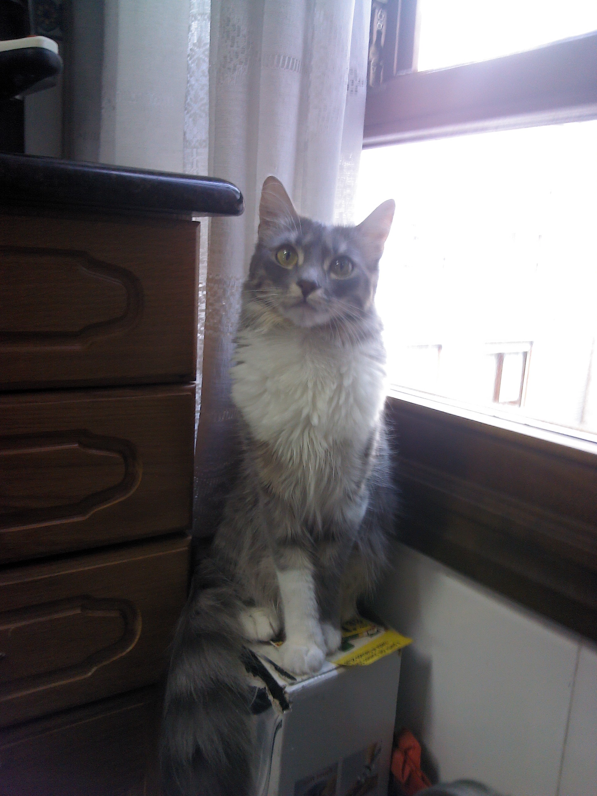 Angora Turkish cat